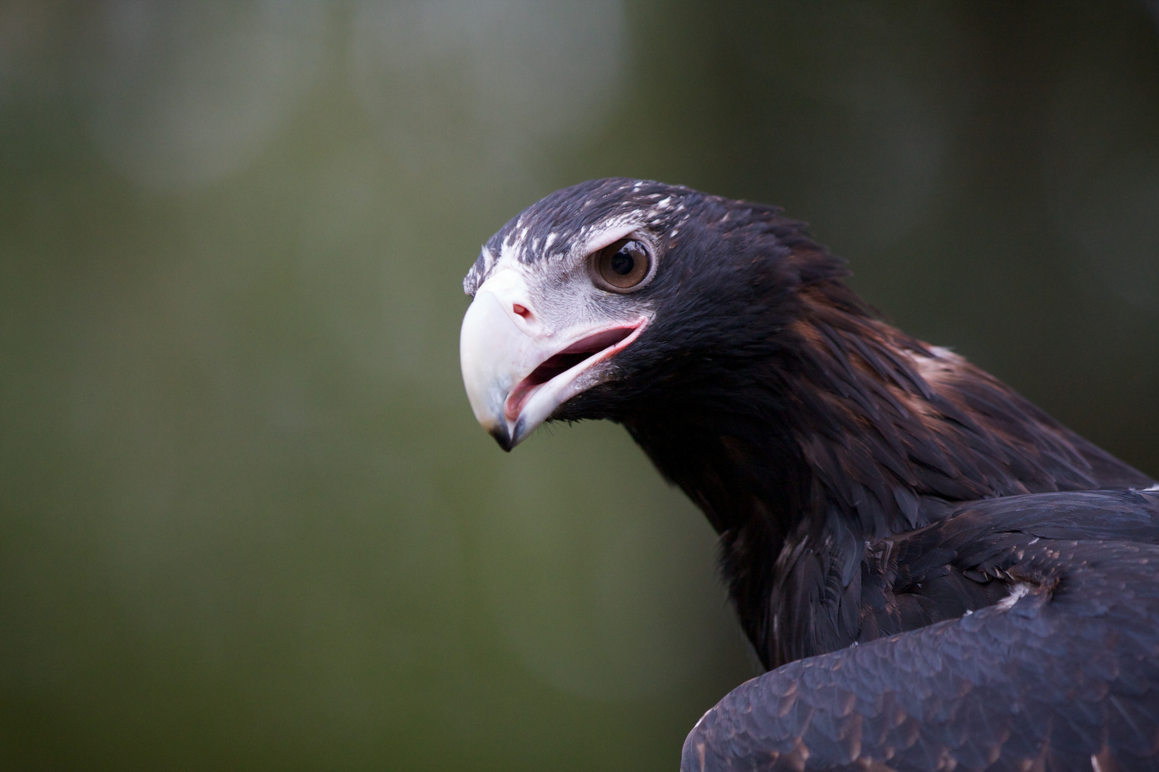 A Wedge-tailed Eagle at Healesville Sanctuary, Victoria, Australia.